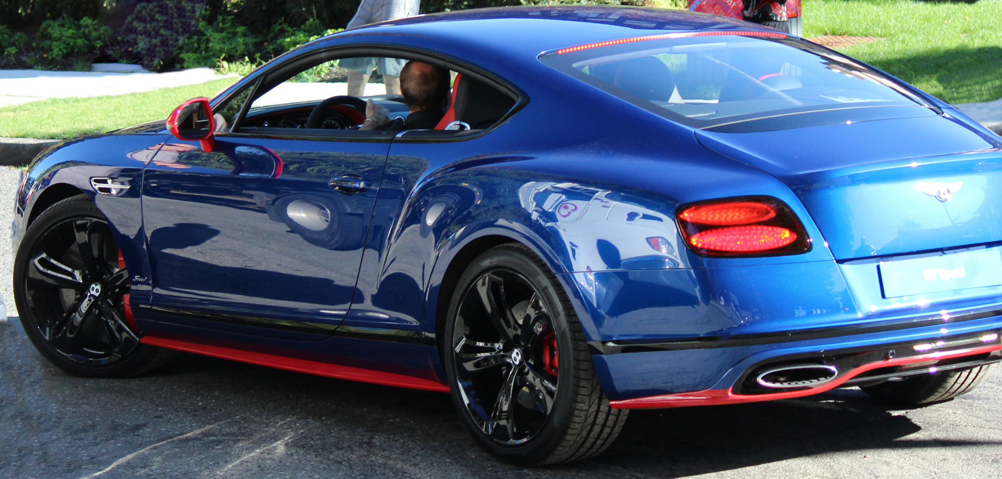 2017 Bentley Continental GT Speed Black Edition (Sequin Blue paint and St. James Red bodykit)